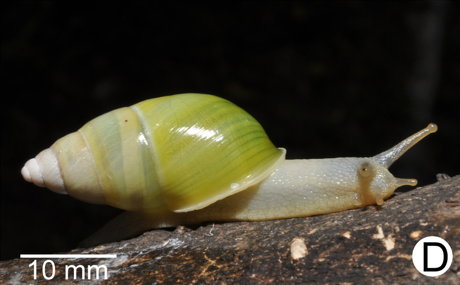 Photo of right side view of Amphidromus syndromoideus. Holotype from the type locality (CUMZ 7019).